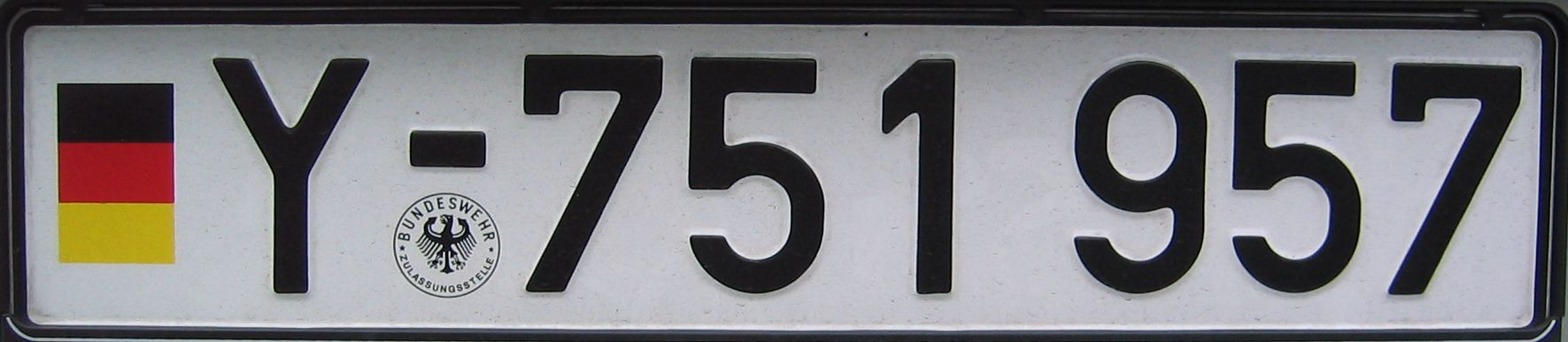 German registration plate for Bundeswehr (military)